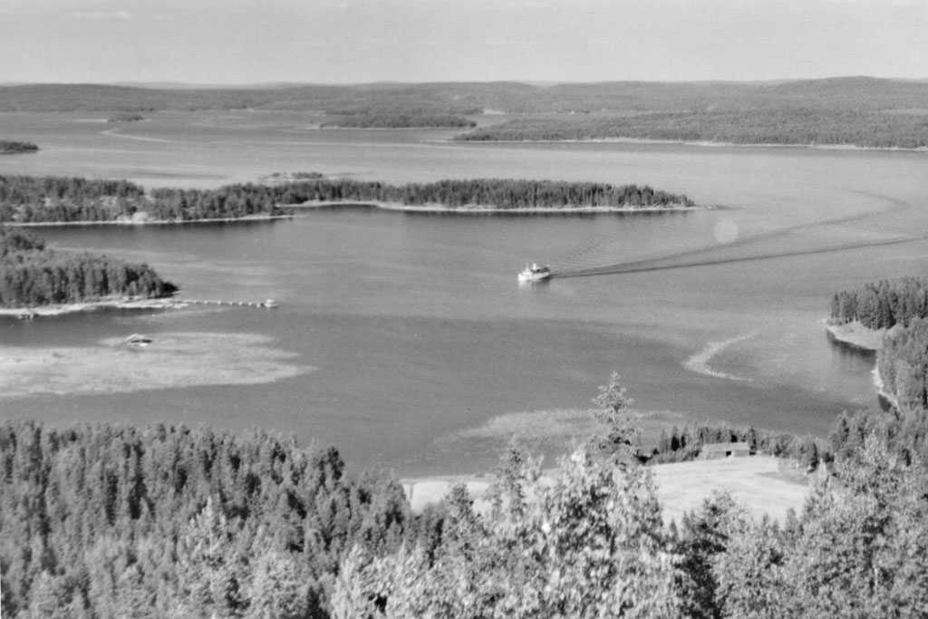 Päijänne, Finland seen from Oravivuori in 1948